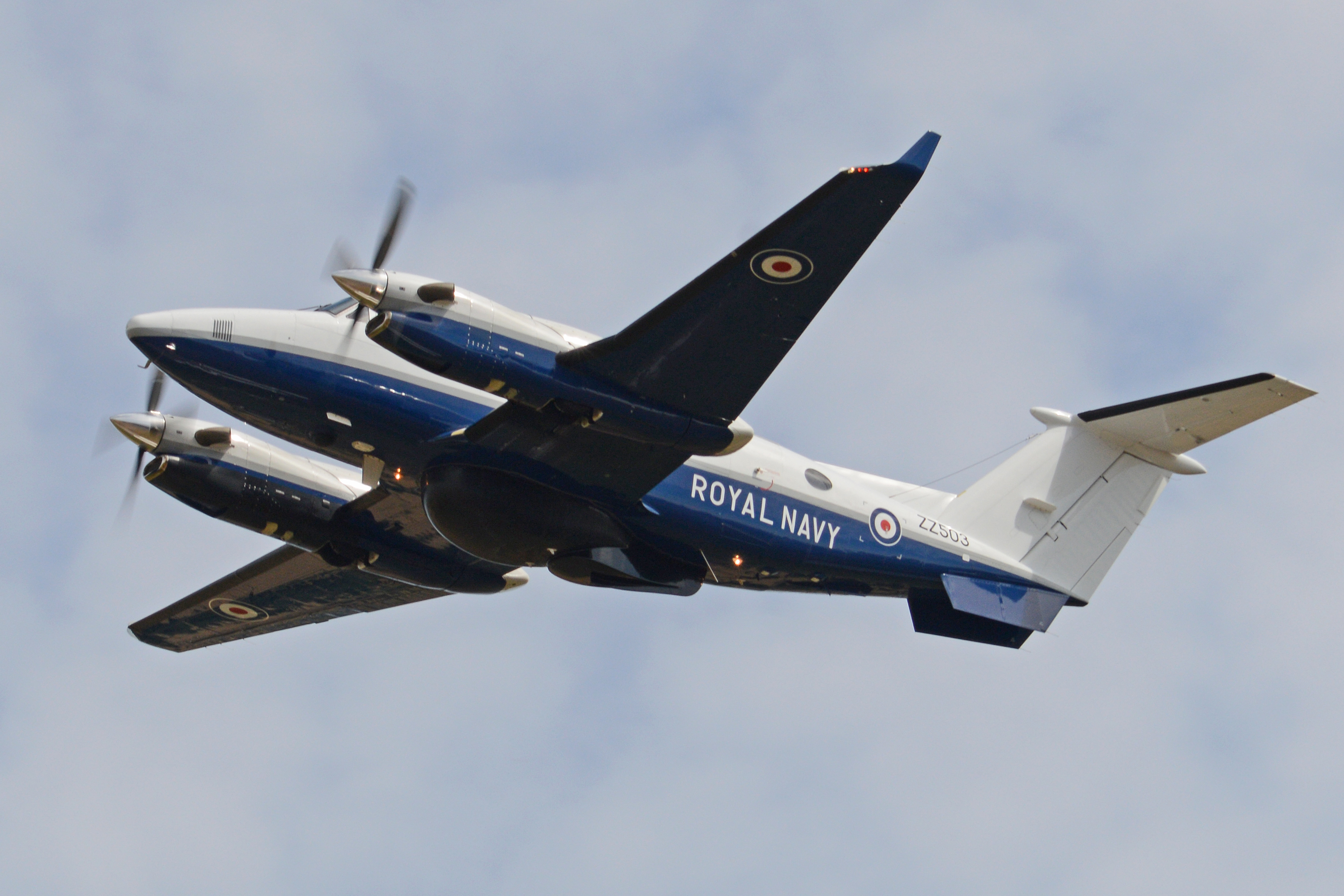 c/n FL-633. Built 2011. Operated by 750 Naval Air Squadron, Royal Navy, based at RNAS Culdrose. Seen departing after taking part in the 2017 Royal International Air Tattoo. RAF Fairford, Gloucestershire, UK. 17th July 2017